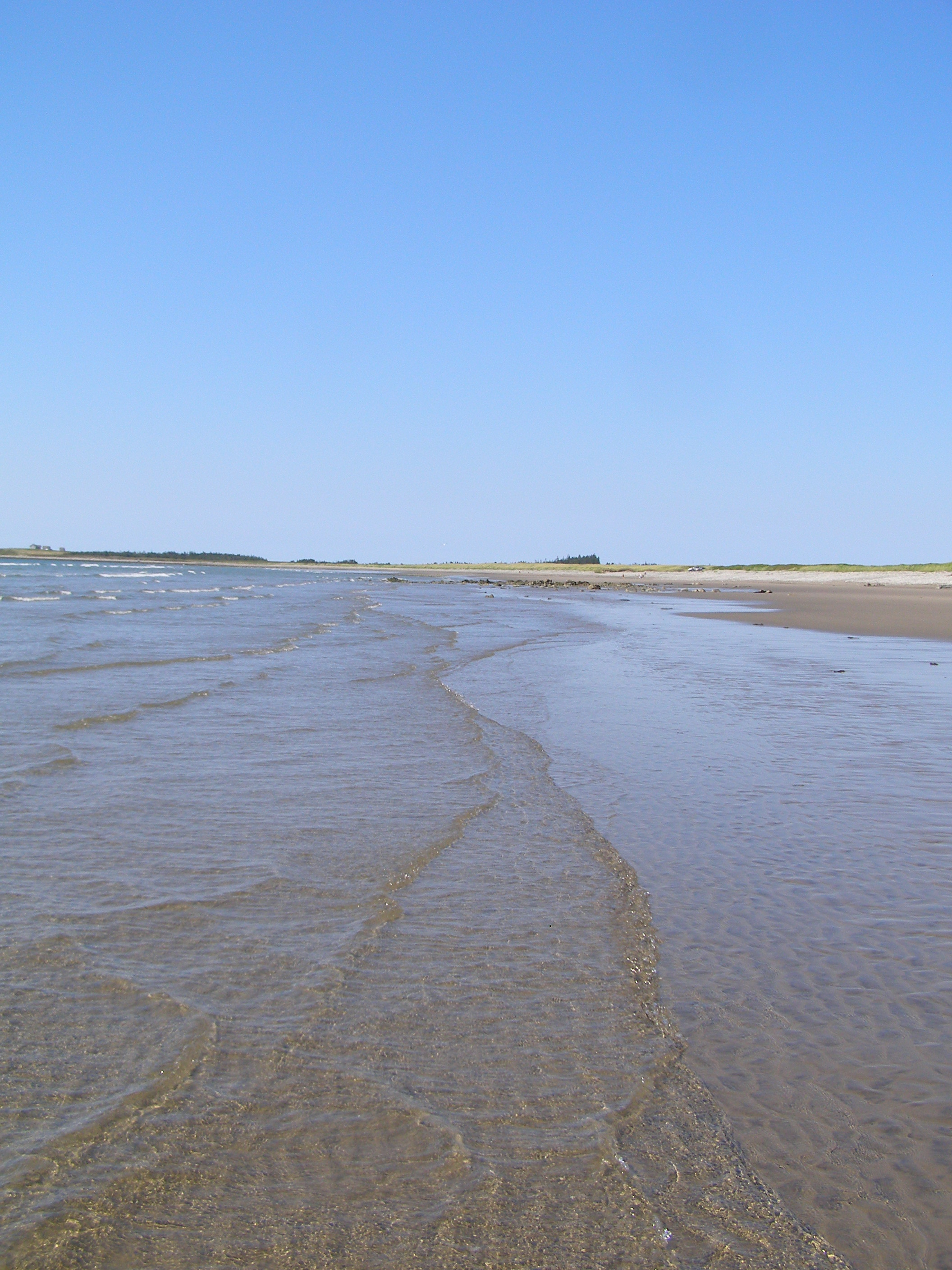 Beautiful Mavillette Beach!